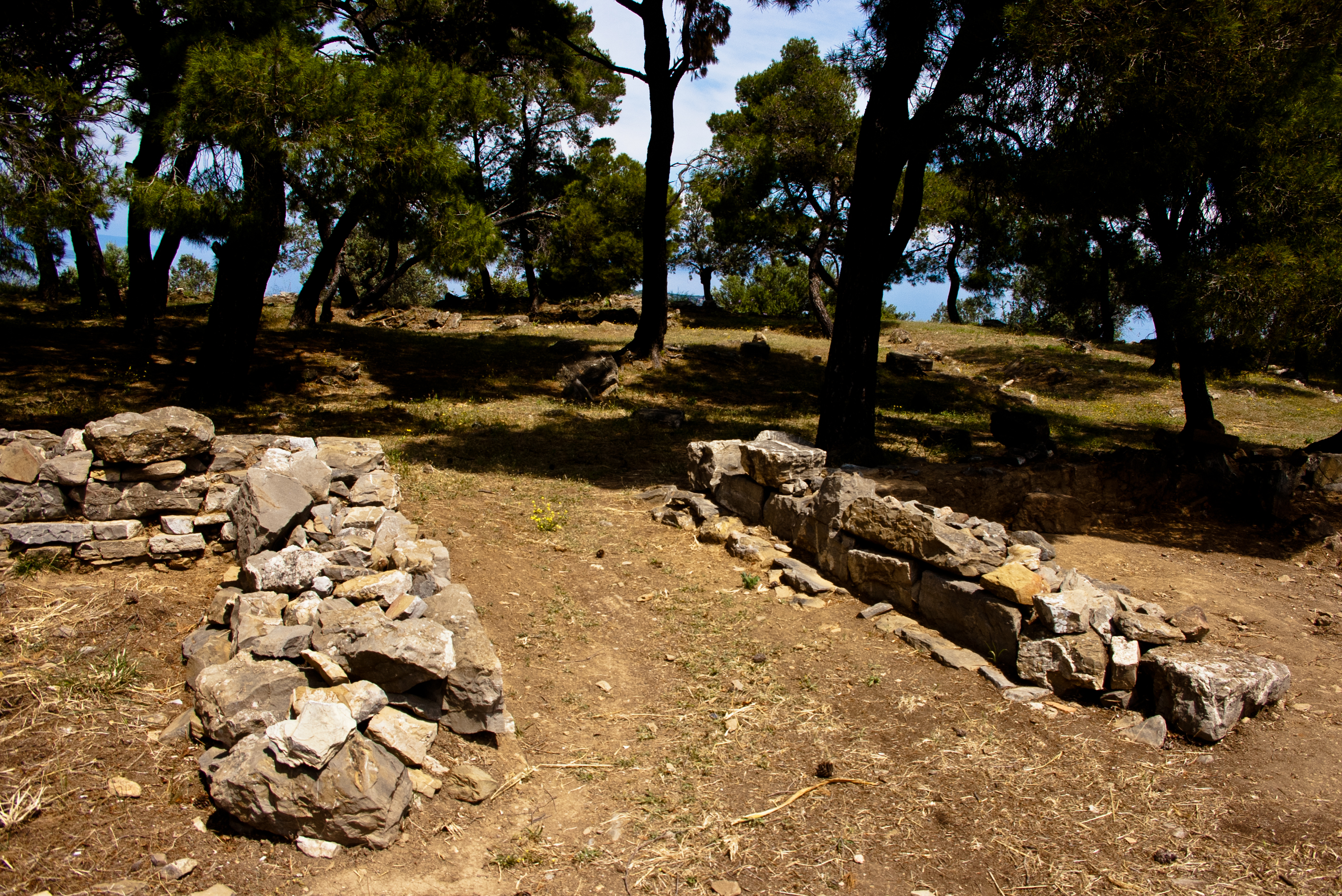 The foundations of the entrance through the peribolos wall of the temple of Poseidon, Kalaureia.